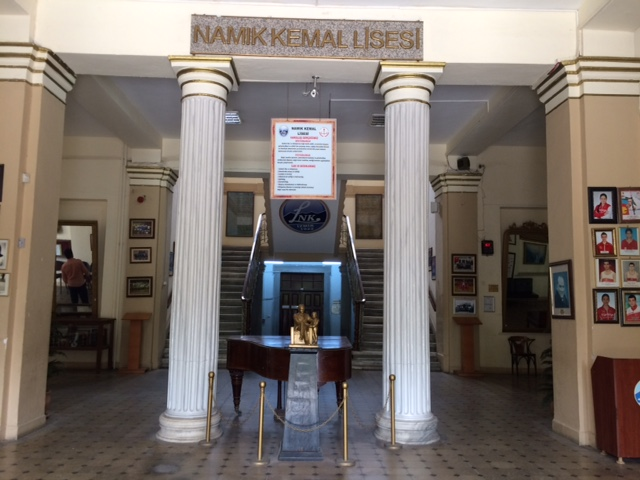 Binanın İç Kısmında Bulunan İki Dorik Mermer Kolon